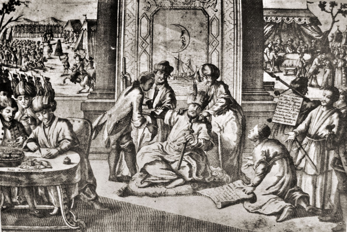 Turkey bleeding. Contemporary engraving showing allegorical scenes related to the signing of the Treaty of Küçük Kaynarca in 1774, resulting in the Ottoman Empire being amputated of territories. Turkey here is personified by Ahmed Resmî Efendi, head of the Turkish delegation.